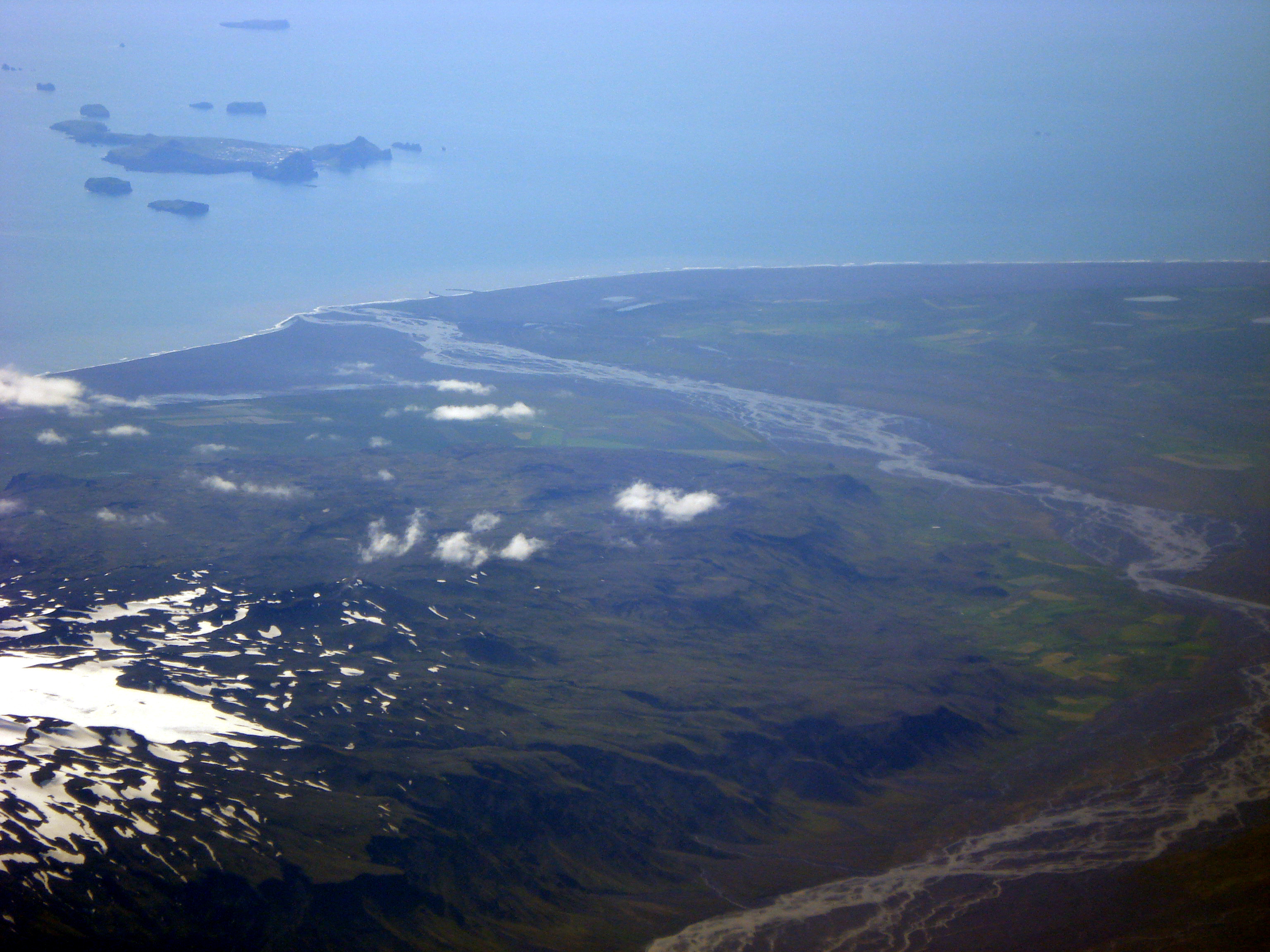 Vestmannaeyjar islands at the end of river Markarfljót in Iceland